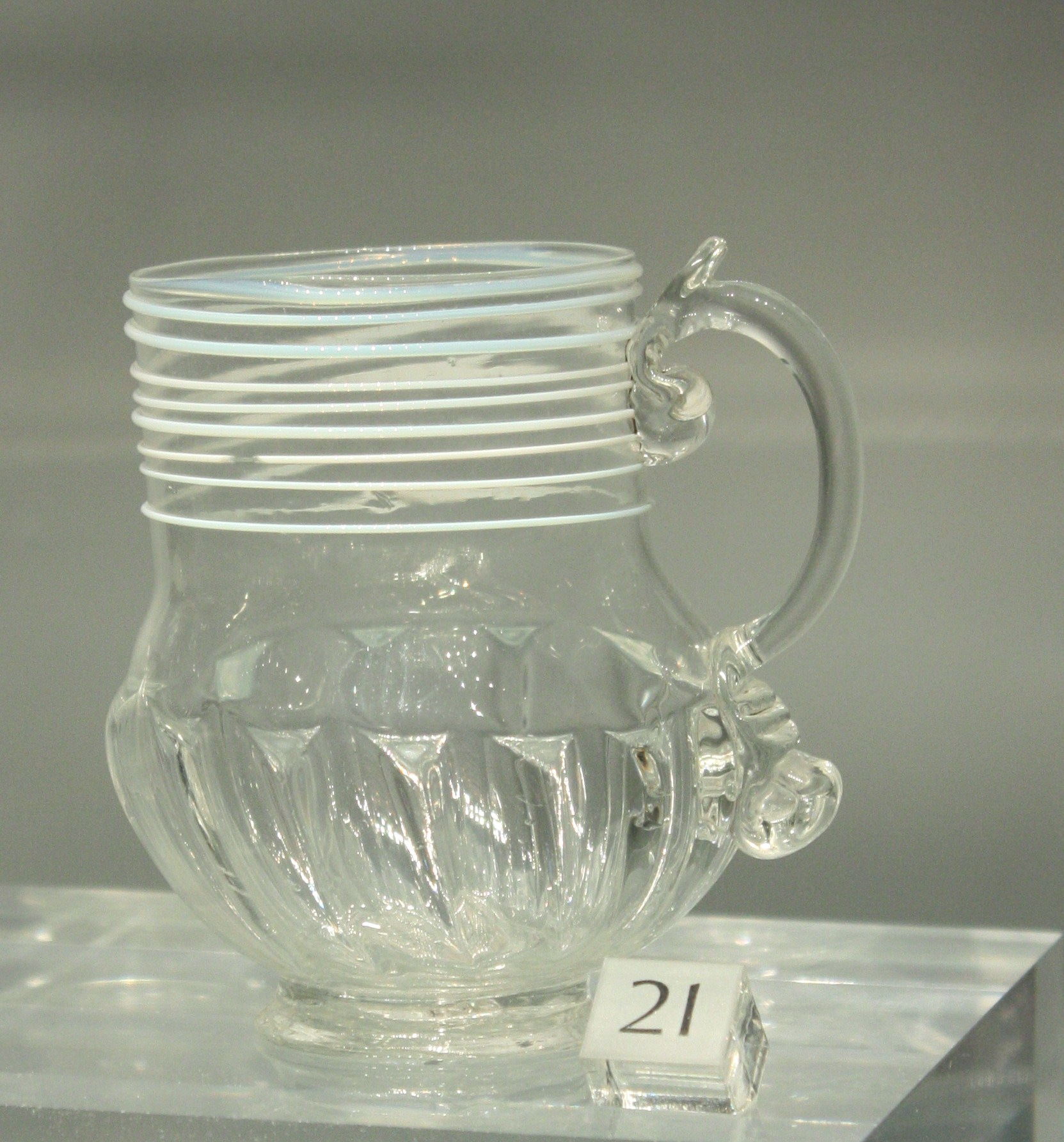 Mug 1680-1690 Made in London Glass with mould-blown ribbed base and white glass trailing Small globular mugs with ribbed necks of this form were made in the last quarter of the 17th century exclusively for drinking strong ale. The V&A collections include a similar example, datable to about 1676-7 and marked with the raven's head seal of the English glassmaker George Ravenscroft (1632-1681). The form of this small ale mug was not so much designed as inherited from its larger imported German brown stoneware predecessors. Just as drinking glasses had lost most of their Venetian influence by 1700, so these little German-derived globular mugs disappeared at the same time, to be replaced by the typically English 'dwarf ale', a small trumpet-shaped glass which, apart from its distinctive short stem, could be confused with a jelly glass. Collection ID: C.168-1993 This photo was taken as part of Britain Loves Wikipedia in February 2010 by Valerie McGlinchey.